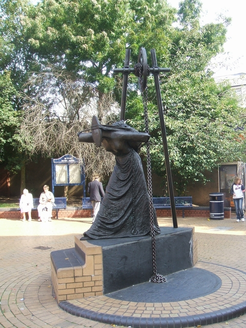 Statue in Bilston Town Centre. A striking tribute to the women employed in the metal trades and steel works in Bilston.